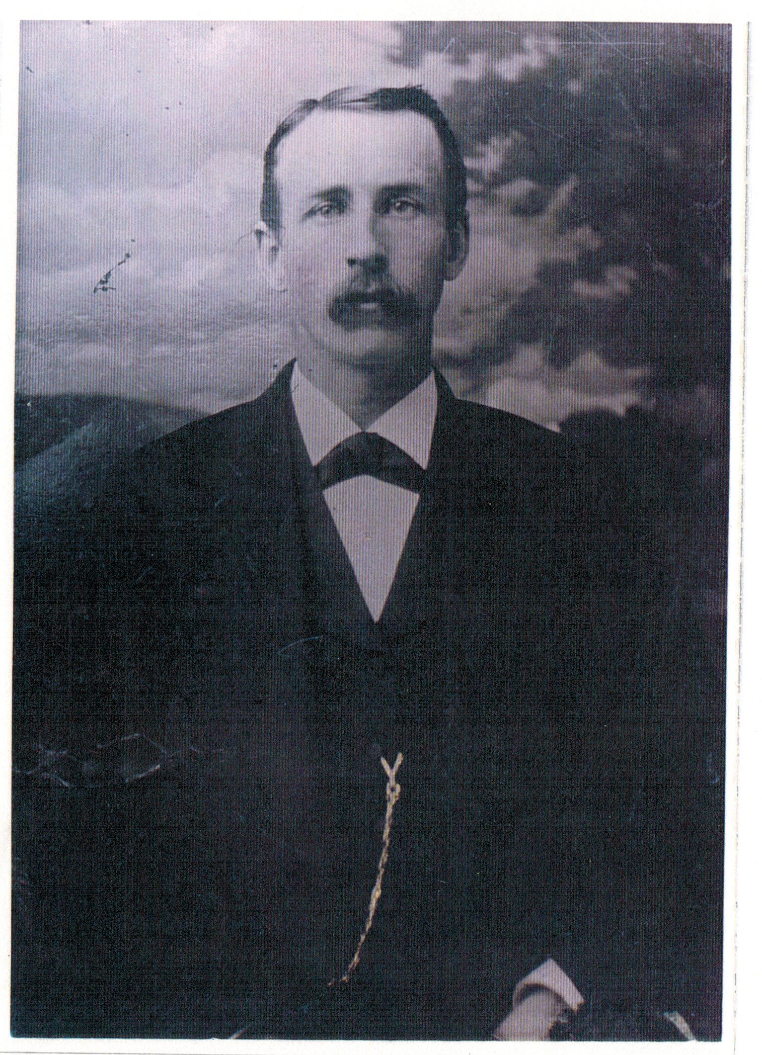 photo of John Kenny, undated